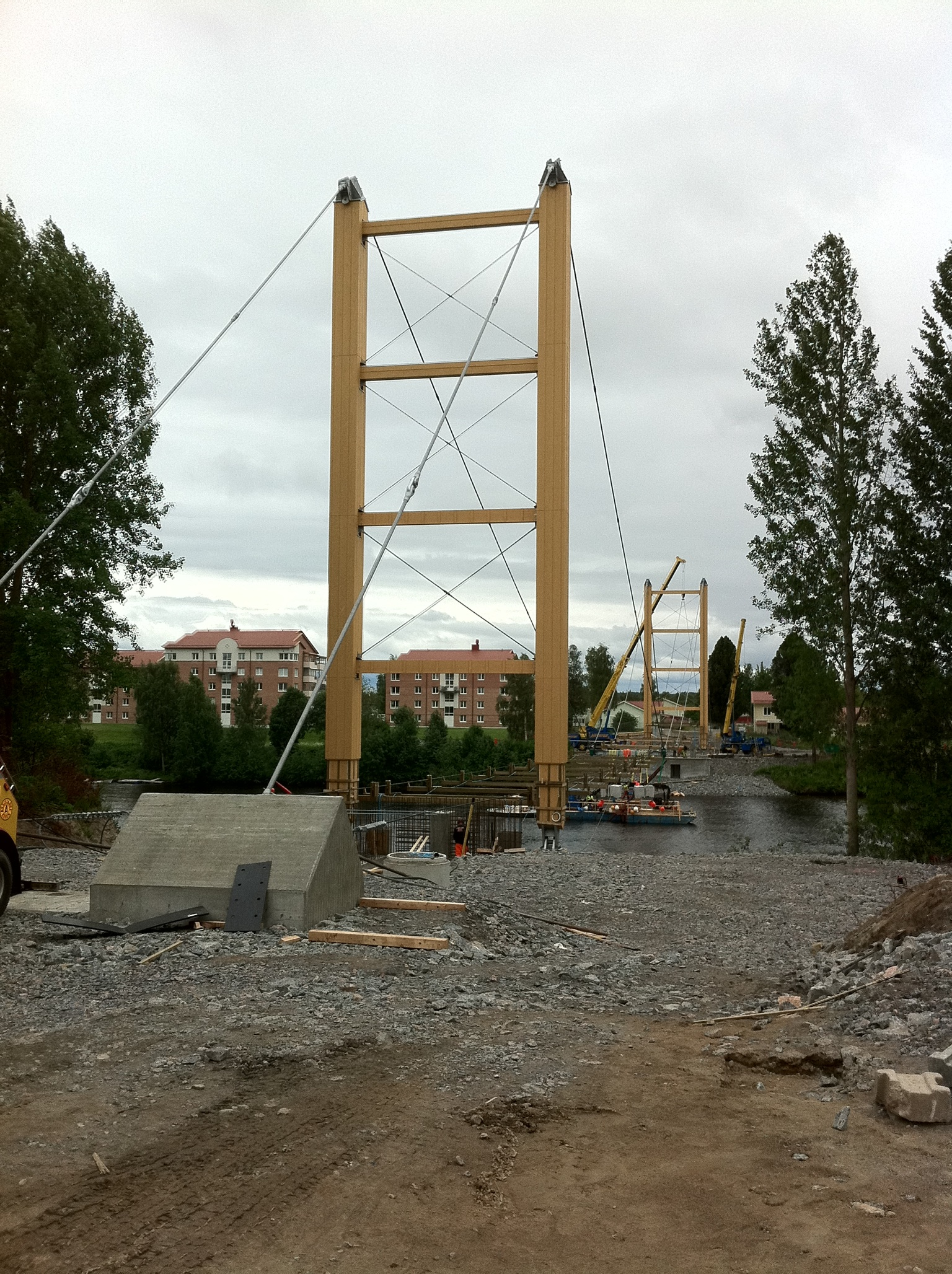 The Älvsbacka Bridge - the longest wooden cable-stayed bridge in the Nordic countries (130 m).